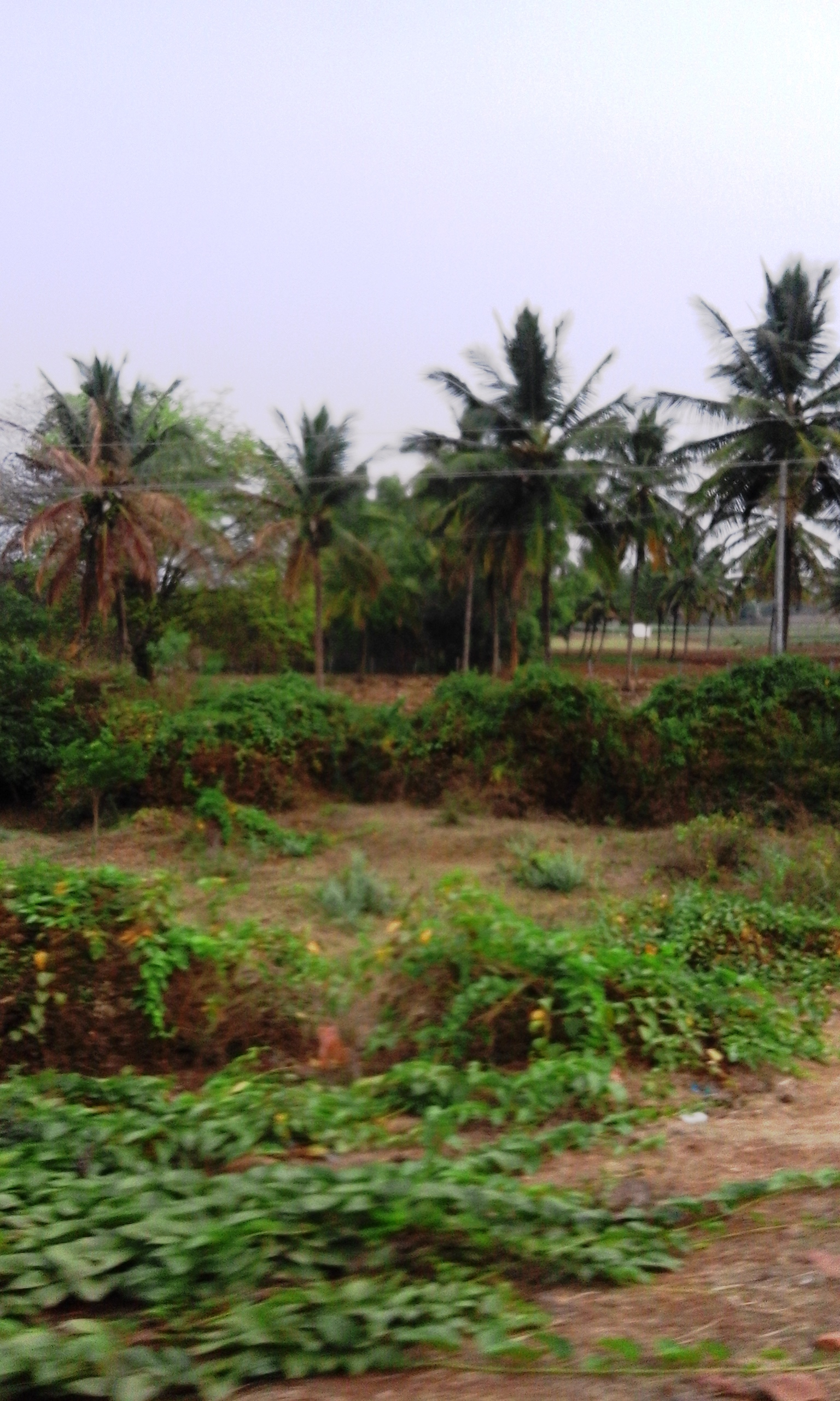 Mananthavady Road, Mysore district, Karnataka province, India.